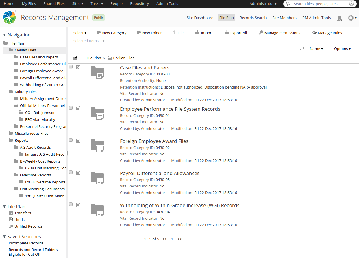 Records management Screenshot of open source software (LGPLv3)